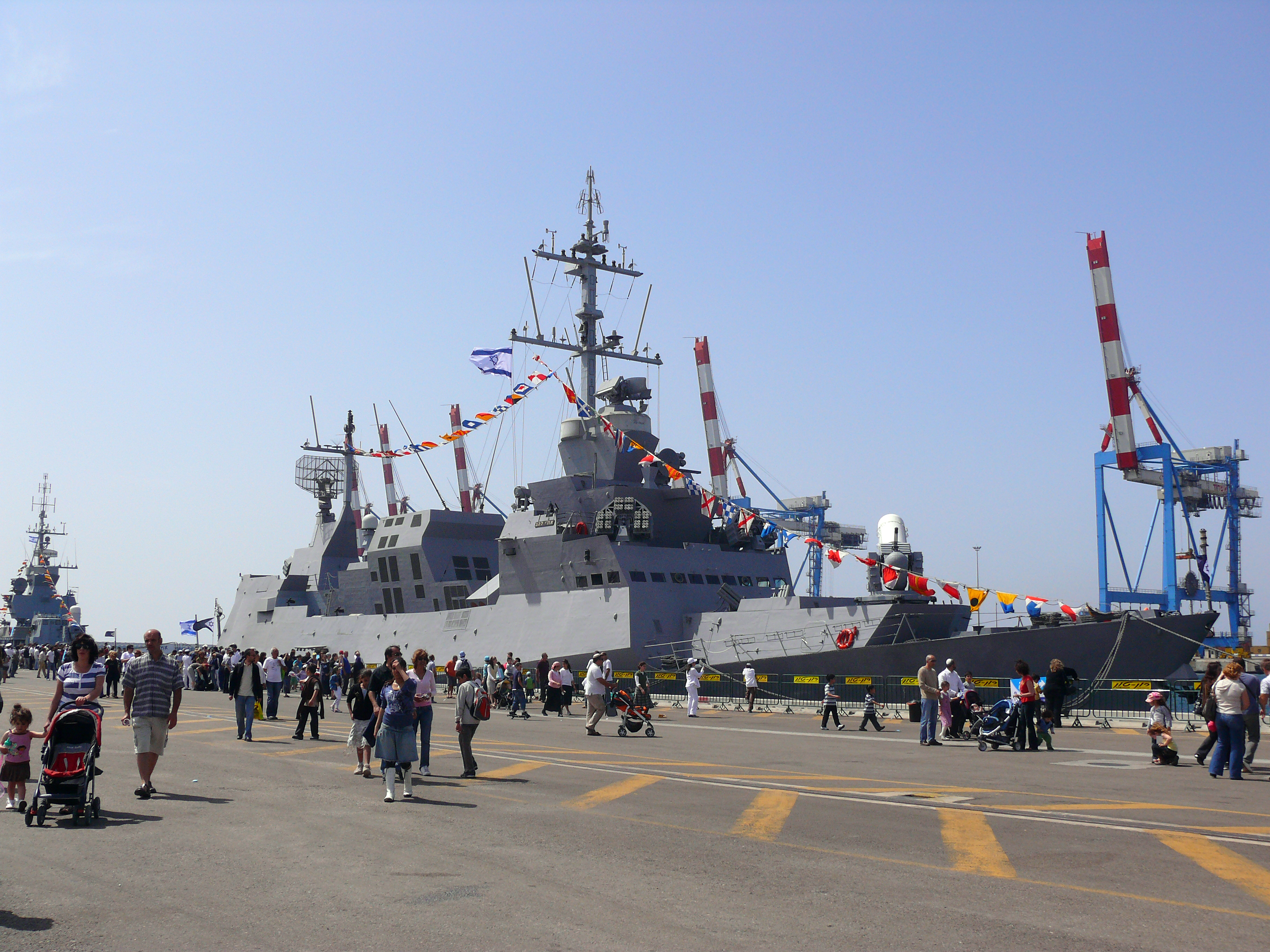 INS Lahav - Saar 5 class missile corvette